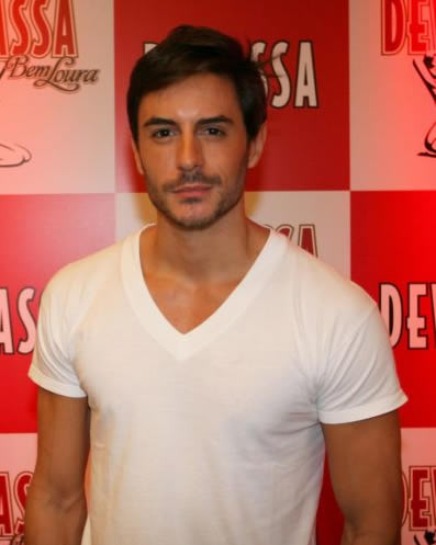 Ricardo Tozzi, brazilian actor, watches samba school parade during 2011 carnival.